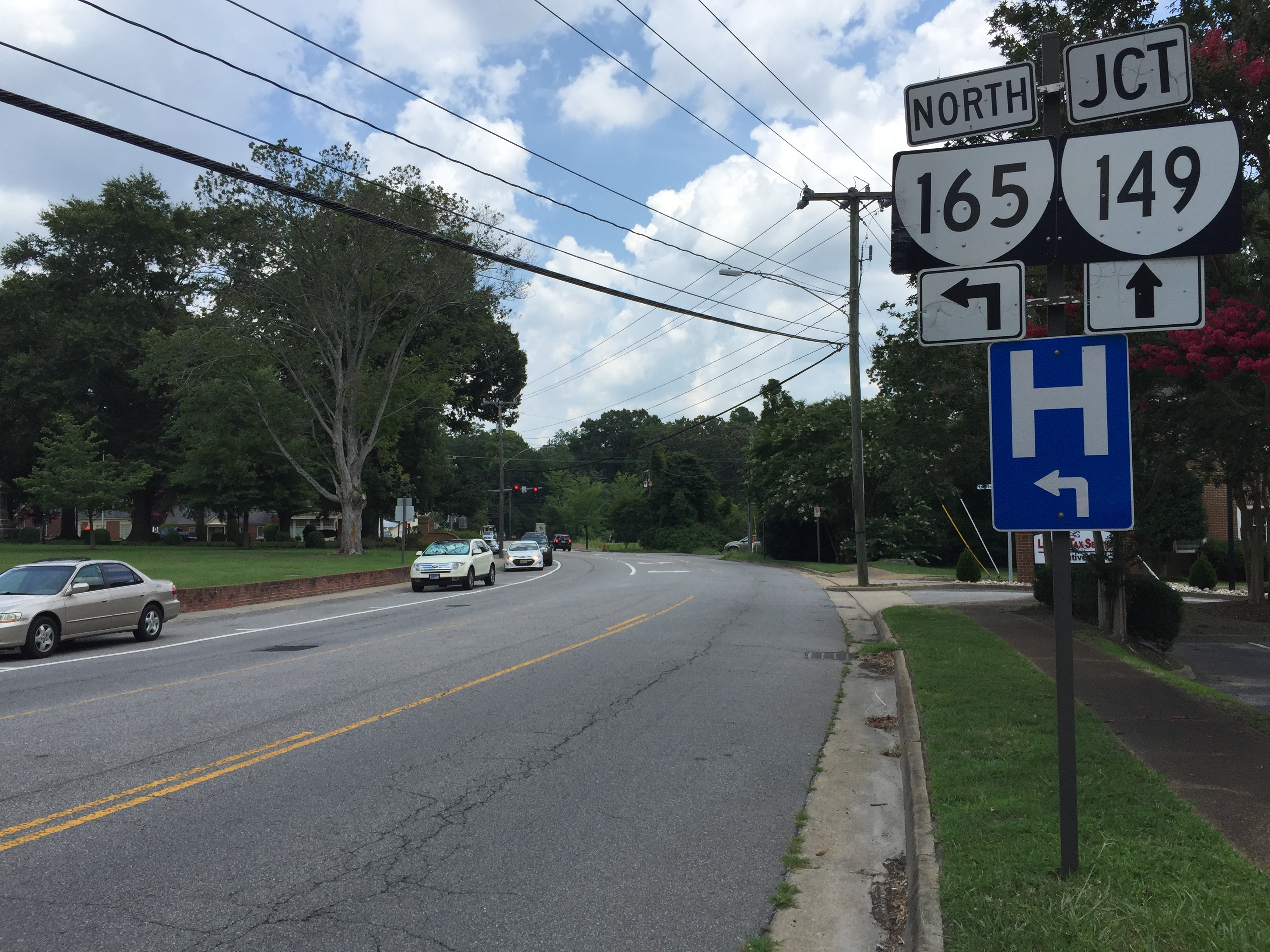 View north along Virginia State Route 165 (Landing Road) at Virginia State Route 149 (Princess Anne Road) in Virginia Beach, Virginia